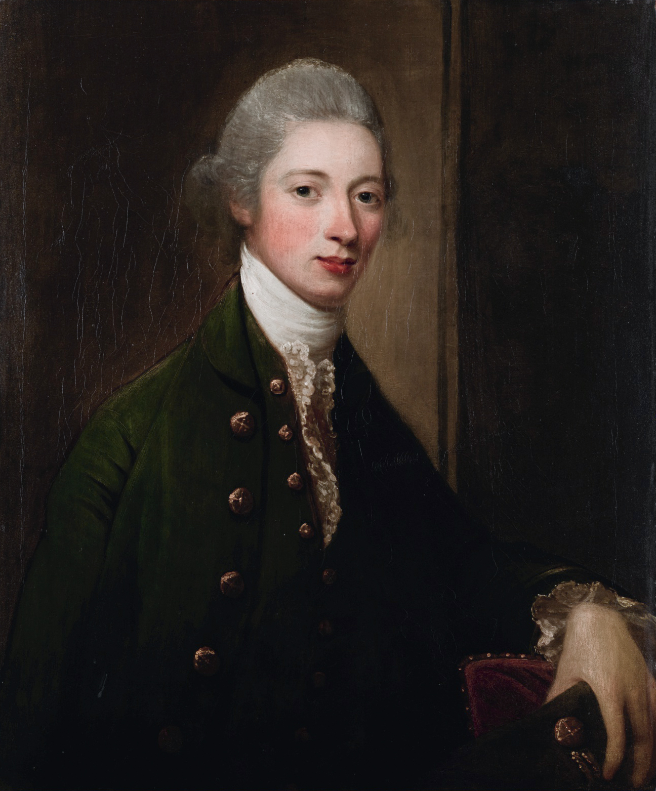 Alexander, 9th [sic: 7th] Earl of Leven and 6th Earl of Melville (1749-1820) oil on canvas 76.3 x 64.1 cm